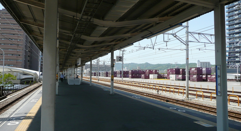 JR Kobe Line (Sanyo Main Line),Takatori Station platform. /JR神戸線（山陽本線）鷹取駅ホーム